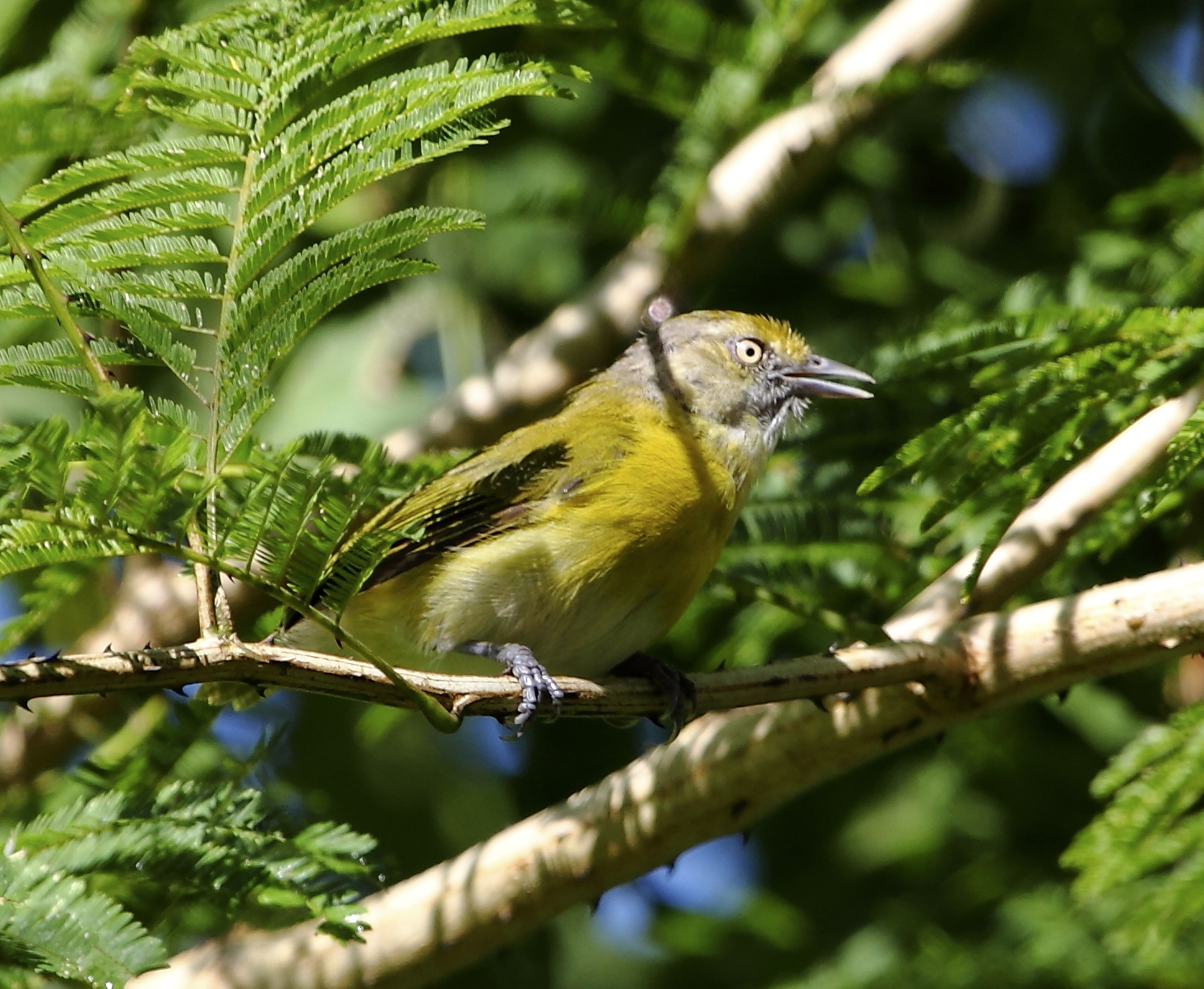 Lemmon-chested greenlet at Angra dos Reis - RJ - Brazil